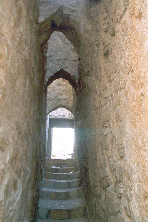 Street in the old Jewish district of the town of Sarral, only 75 centimeters wide